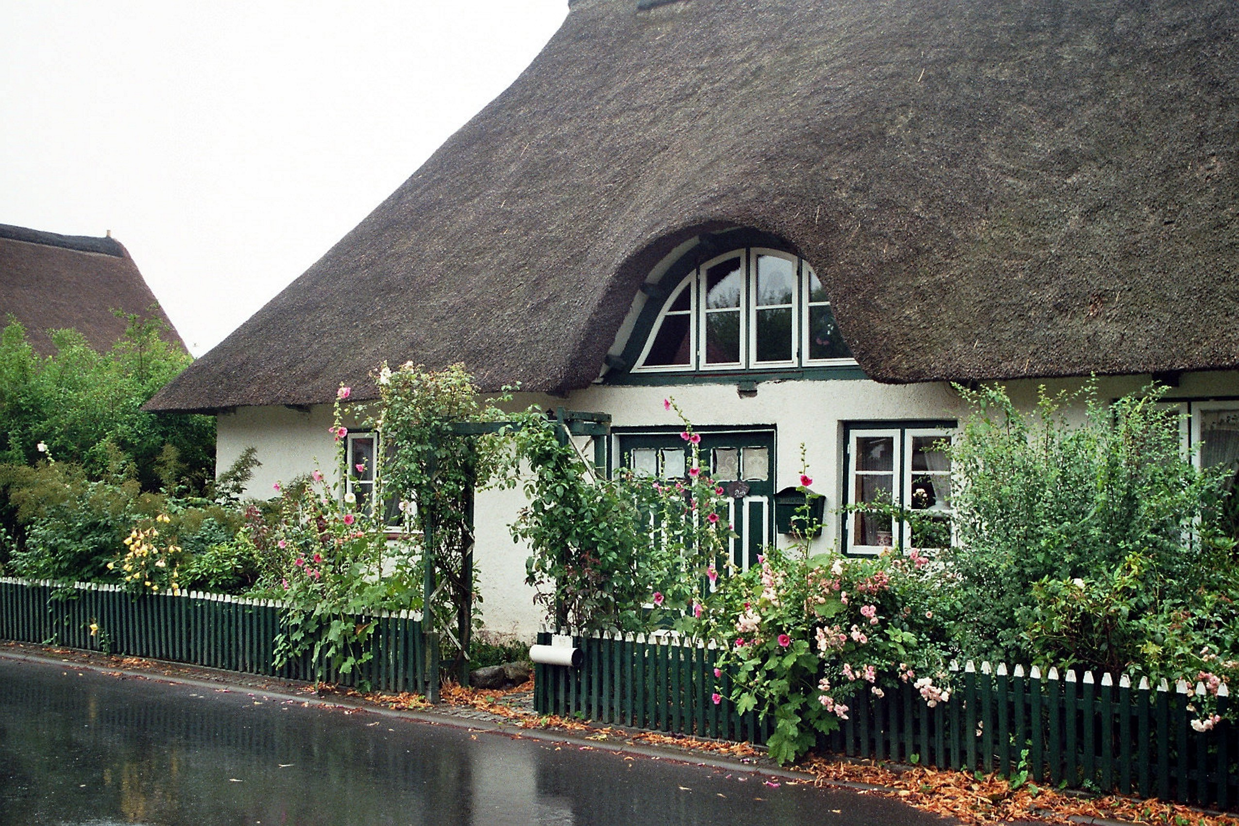 Stakendorf, house on the Dorfstraße